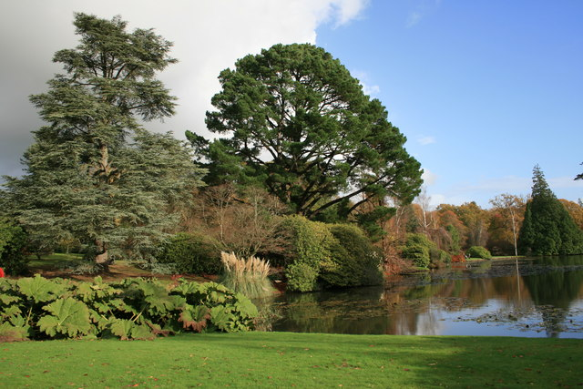 Sheffield Park Gardens, Fletching, Sussex Sheffield Park Gardens (National Trust)